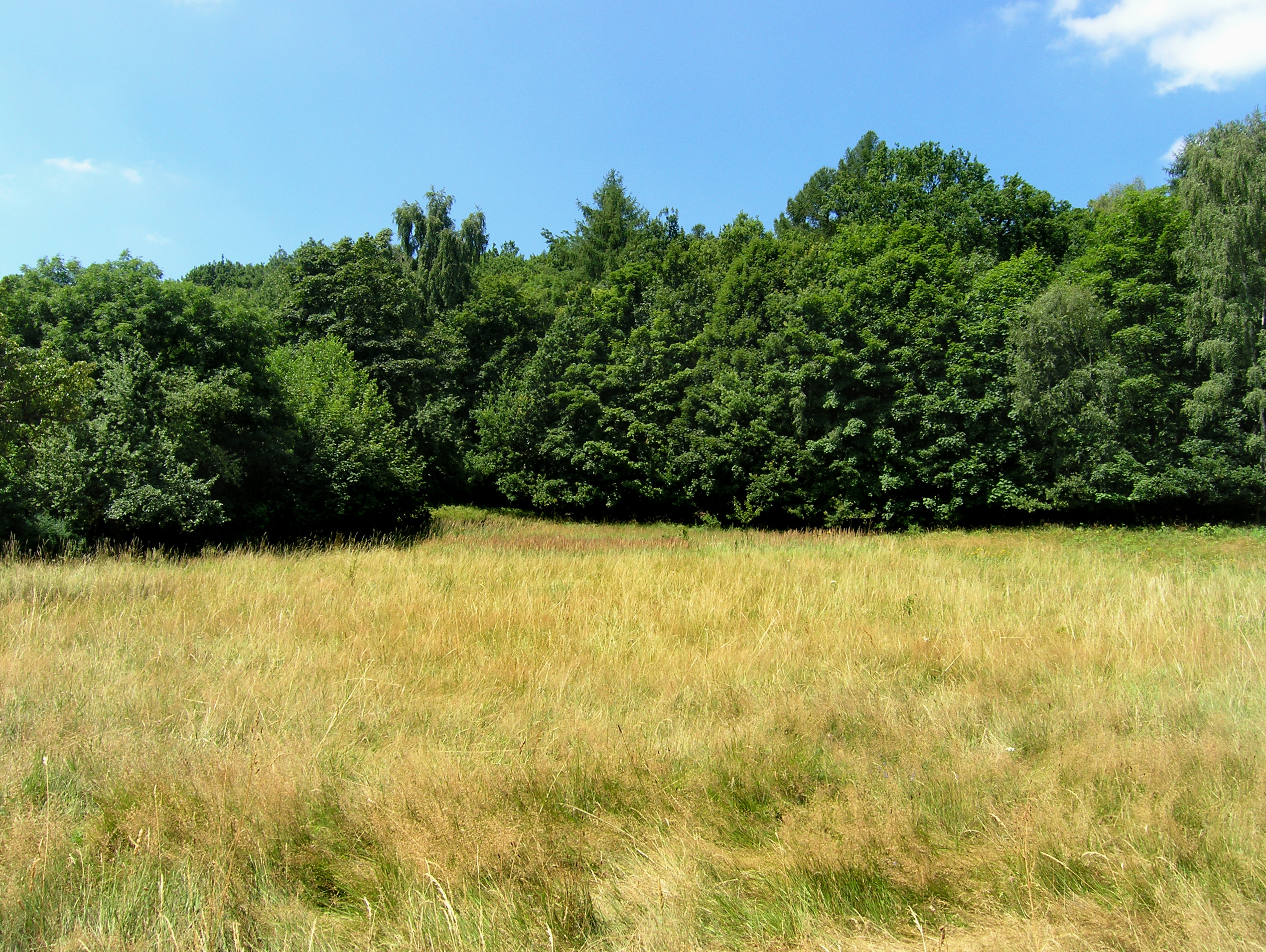 Loučenská hornatina nature park by Háj u Duchcova, Czech Republic